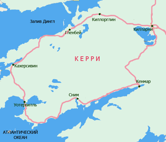 Ring of kerry map